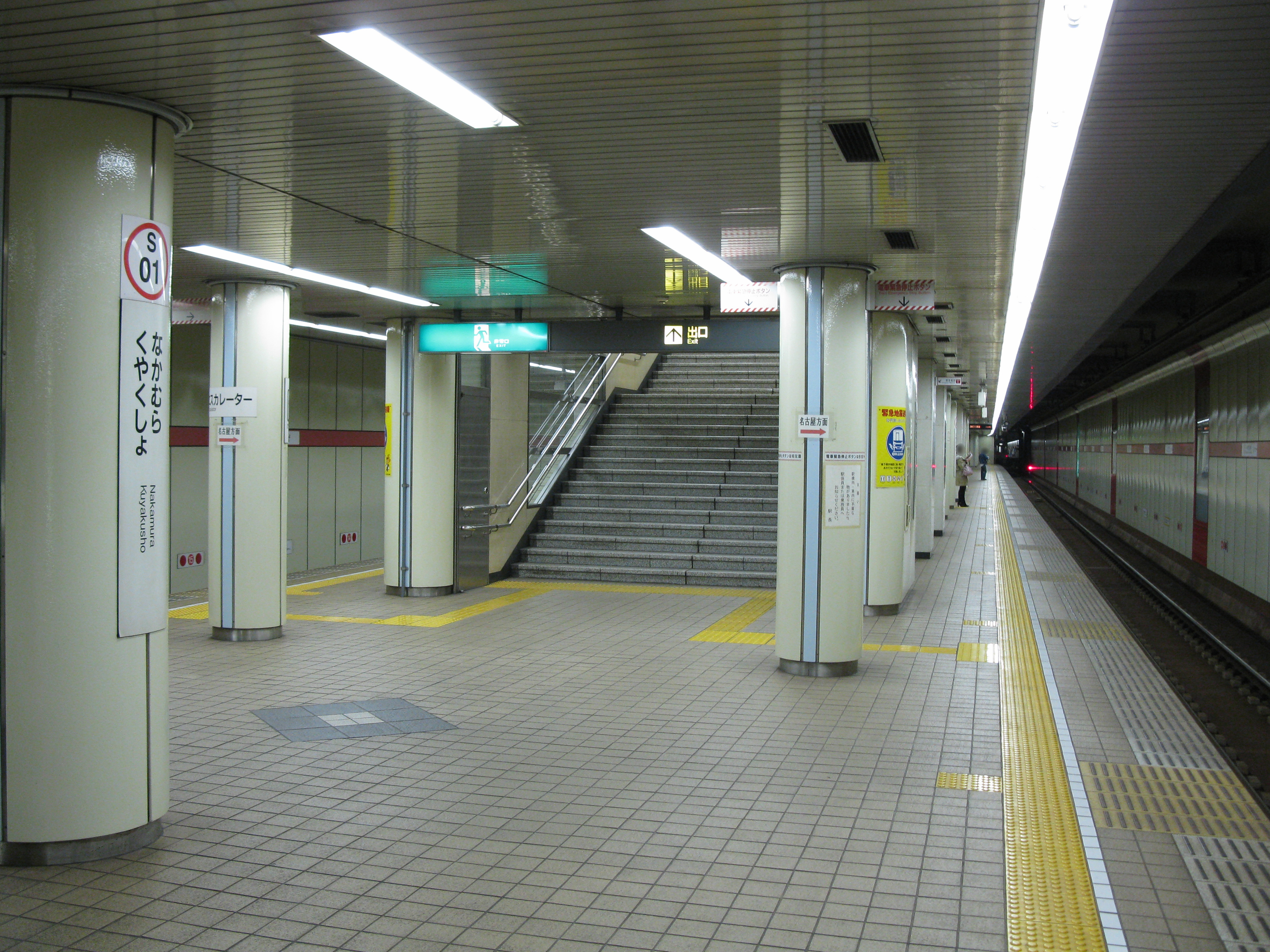 Nakamura Kuyakusho(Nakamura ward office) Station platform (Nagoya Municipal Subway Sakura-dōri Line)